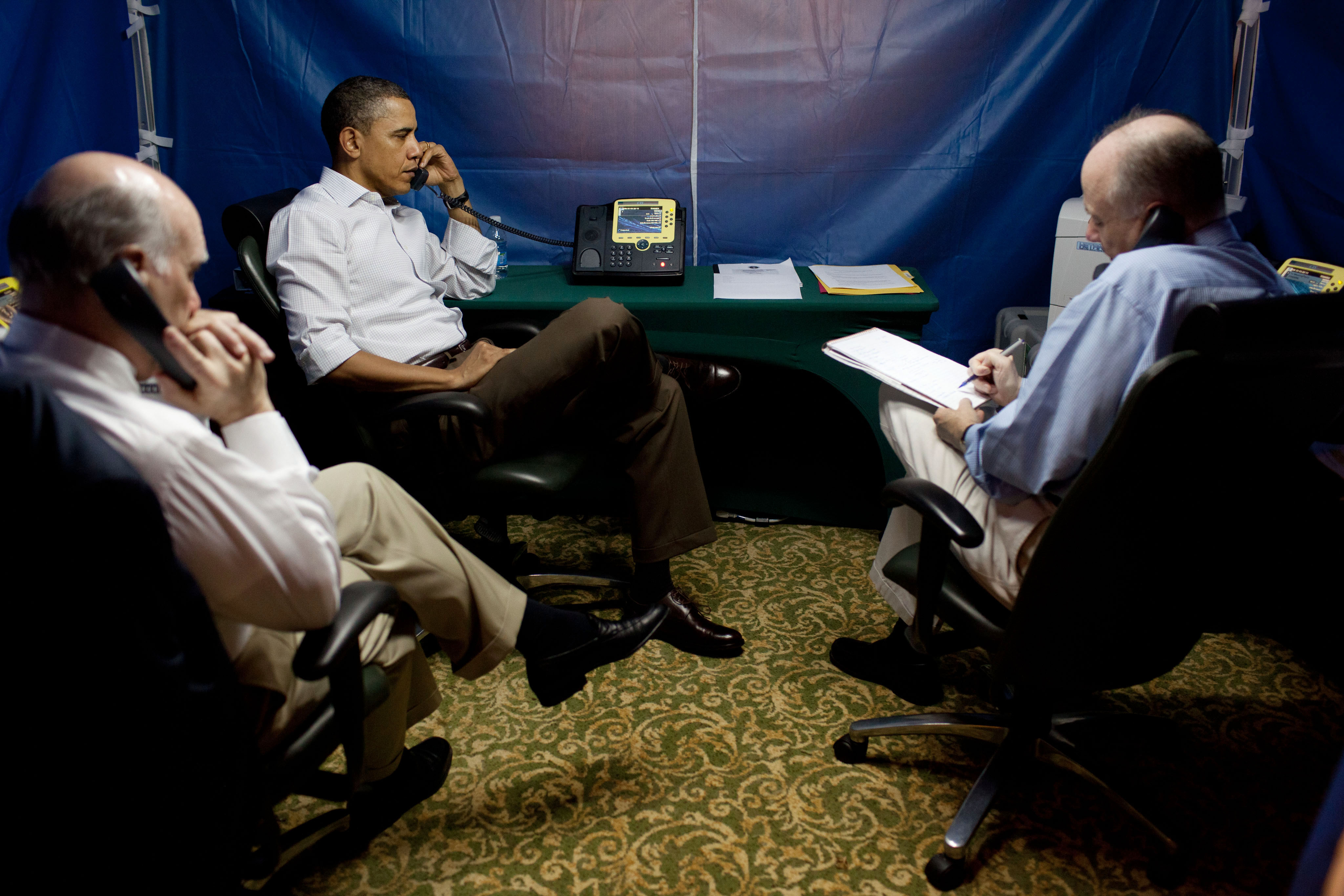 From a SCIF in his hotel room on Rio de Janeiro, U.S. President Barack Obama (center) authorizes military action in Libya. National Security Advisor Tom Donilon is on the right, Chief of Staff William M. Daley on the left.